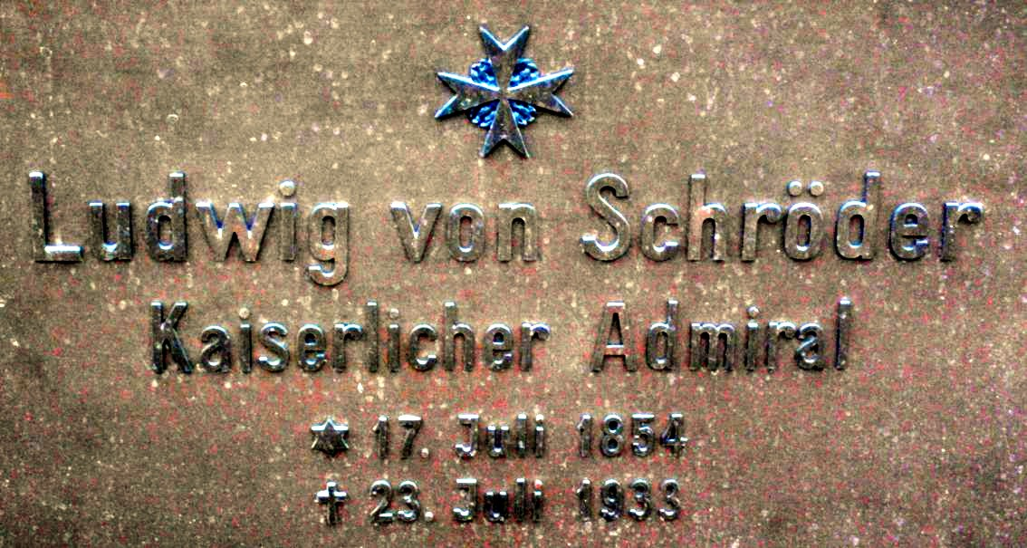 Grave of Ludwig and Joachim von Schröder - grave inscription for Ludwig von Schröder